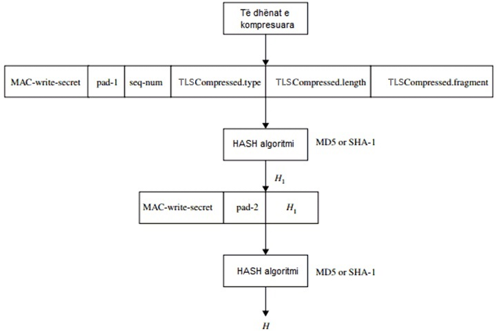 si behet kodi i autentifikimit te mesazhit